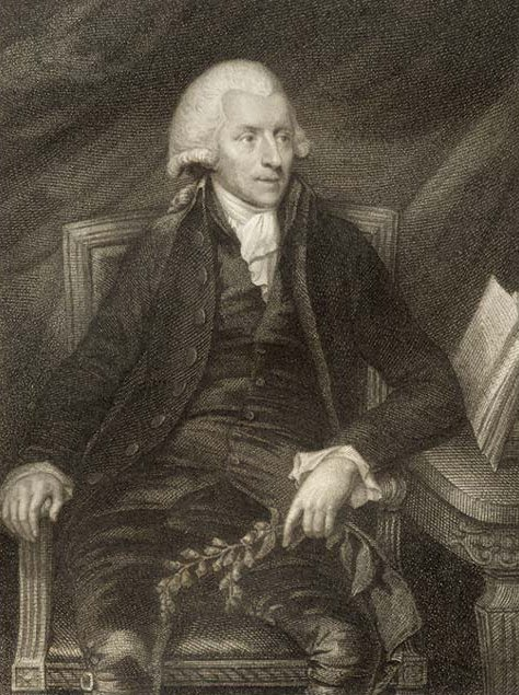 William Withering was an English botanist, geologist, chemist, physician and the discoverer of digitalis.